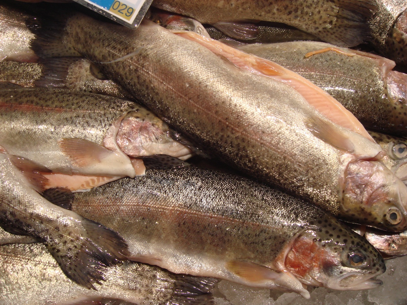 Rainbow trout displayed in a fish market in Western Australia